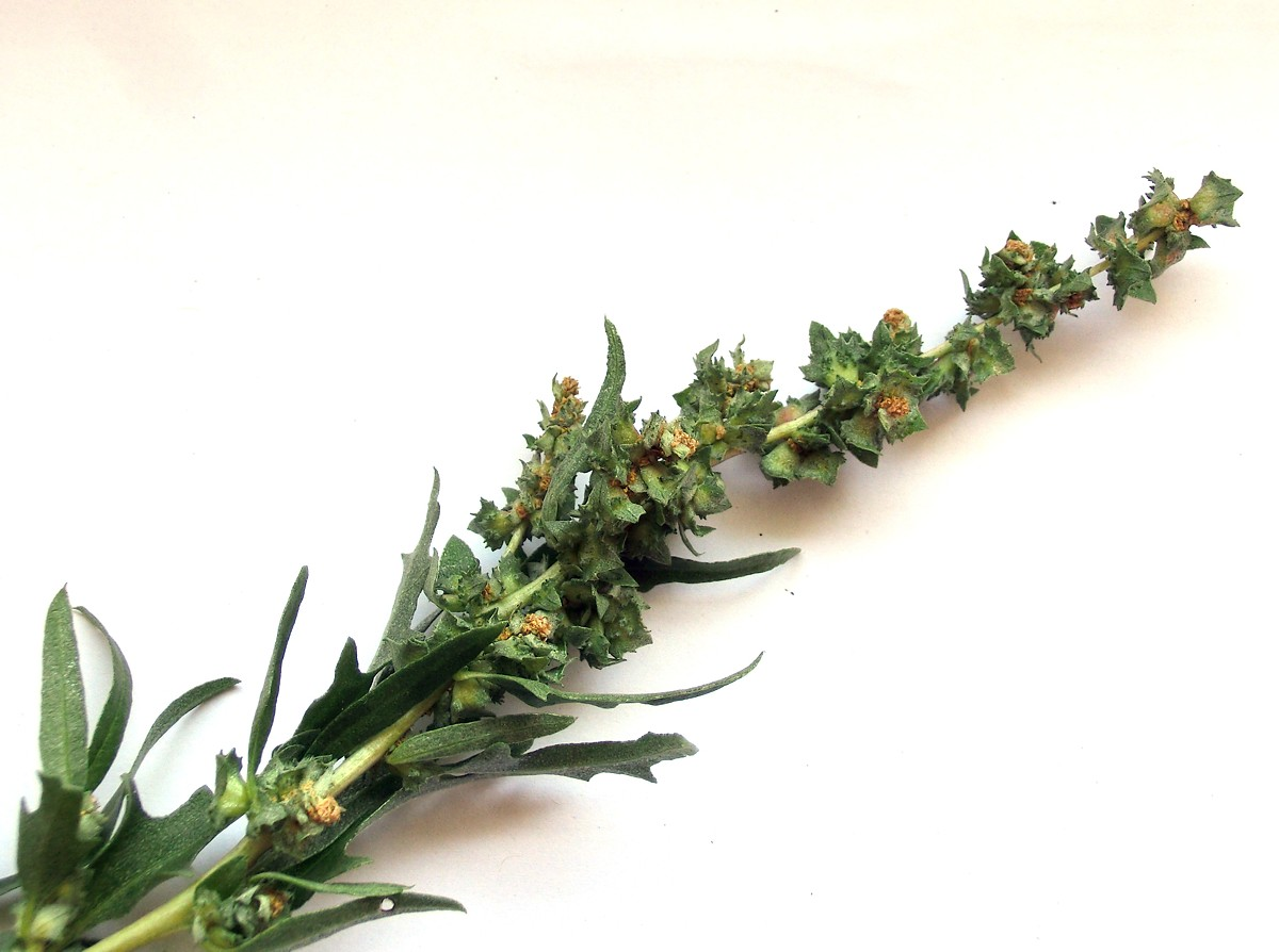 Atriplex tatarica, inflorescence. Germany, east of Halle (Saale), parking place at highway A9 (Sachsen-Anhalt/Sachsen).